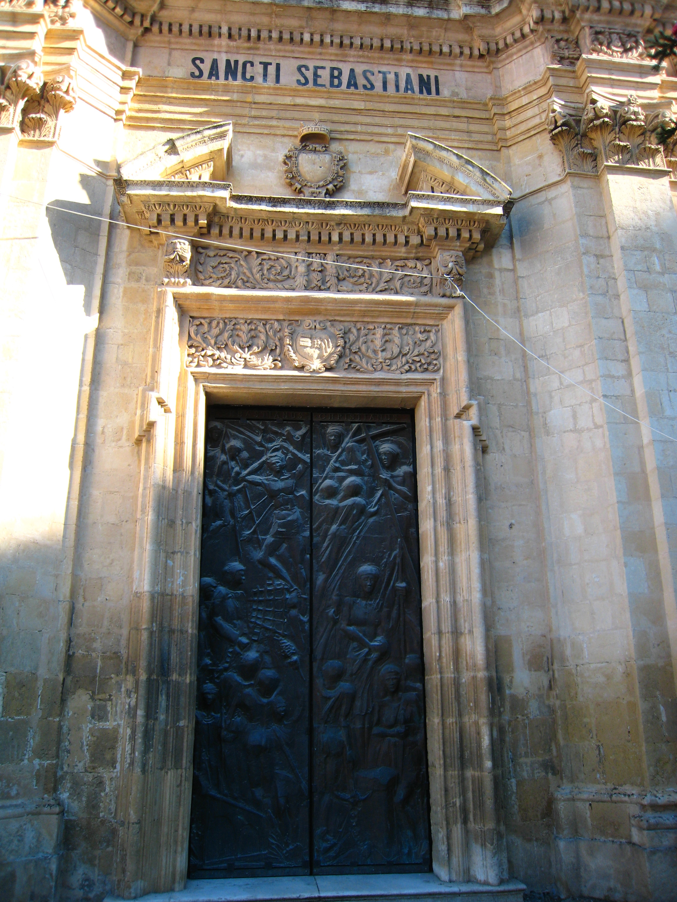 Melilli cathedral